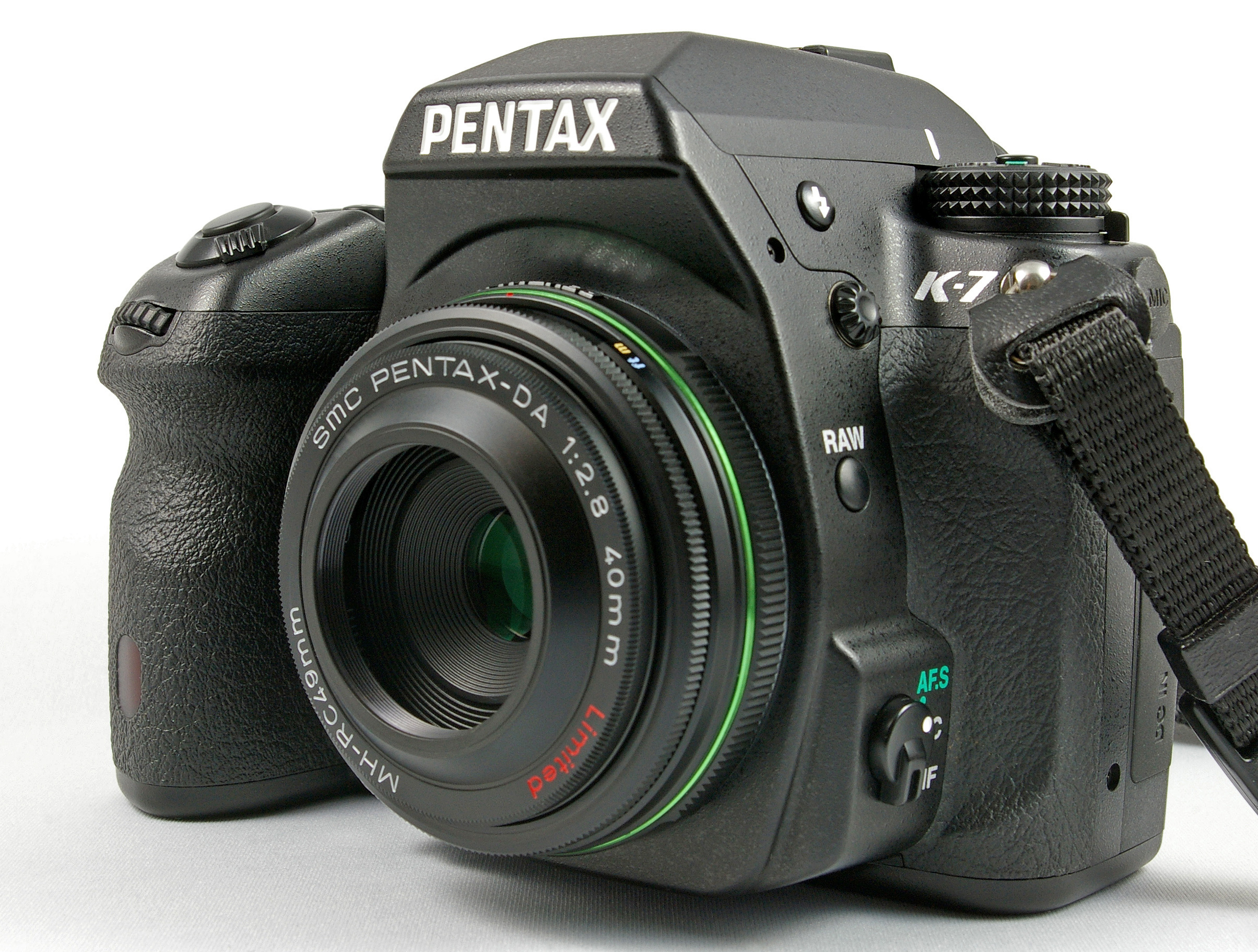 The digital SLR camera Pentax K-7 with prime lens smc DA 40 mm / 2.8 Limited (incl. mounted lens hood). The "pancake" lens has a length of only 15 mm and a weight of 90 g.